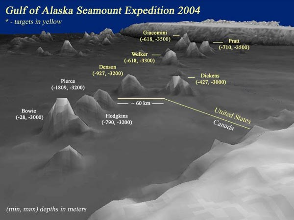 The Kodiak-Bowie Seamount chain, a 400-mile chain of submarine volcanoes in the Gulf of Alaska.